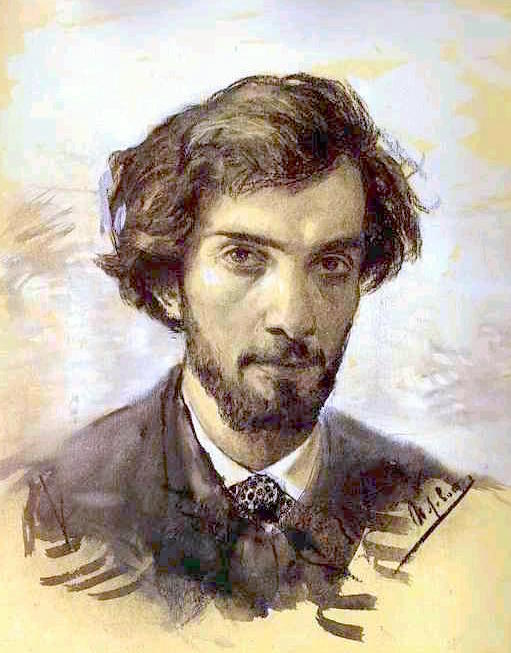 Self-portrait of Isaac Levitan from 1880